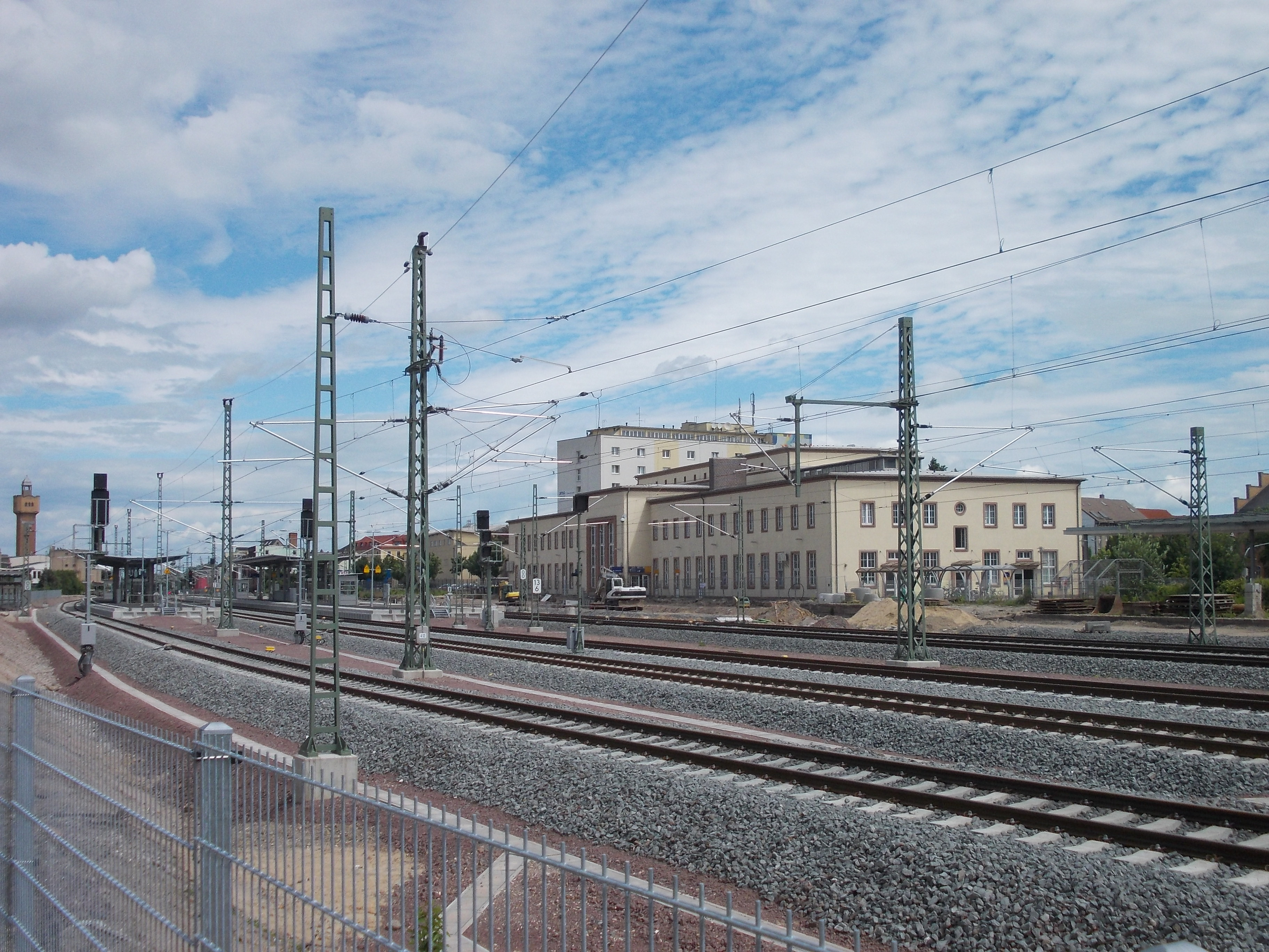 Merseburg train station (district: Saalekreis, Saxony-Anhalt)